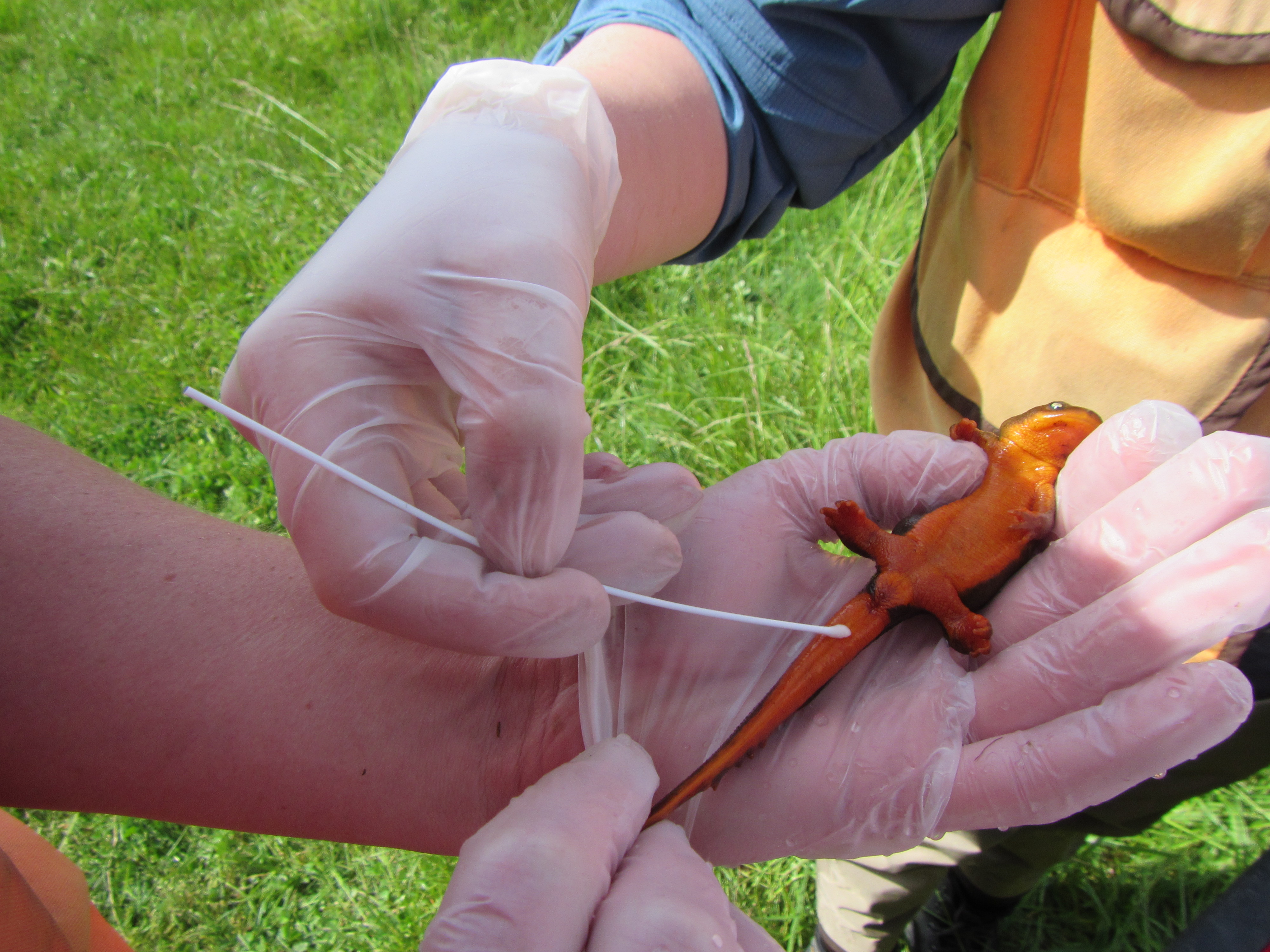 Scientists sample a rough-skinned newt for the fungal pathogen Batrachochytrium salamandrivorans, or Bsal, at a pond near Portland, Oregon. Bsal is decimating wild salamander populations in Europe and could emerge in the U.S. through the captive amphibian trade.